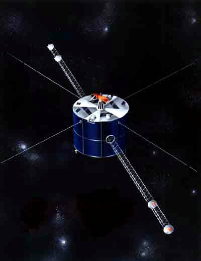 The GEOTAIL mission is a collaborative project undertaken by the Institute of Space and Astronautical Science (ISAS) and the National Aeronautics and Space Administration (NASA). Its primary objective is to study the dynamics of the Earth's magnetotail over a wide range of distance, extending from the near-Earth region (8 Earth radii (Re) from the Earth) to the distant tail (about 200 Re). The GEOTAIL spacecraft was designed and built by ISAS and was launched on July 24, 1992.